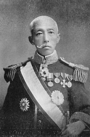 Noritsugu Matsudaira